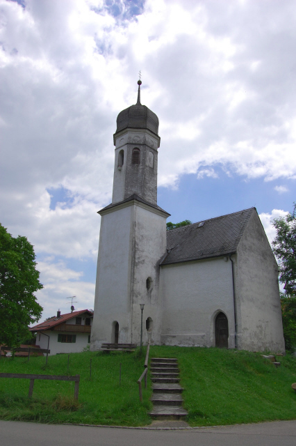 Oberreit: KircheThis is a photograph of an architectural monument.